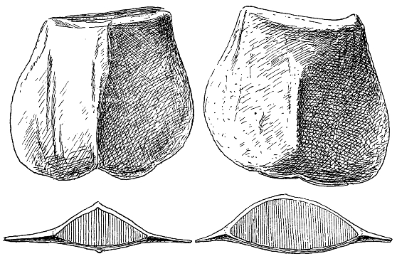 Ein großer Pterygotus aus dem rheinischen Unterdevon. In: Paläontologische Zeitschrift. 1. Jahrgang, Nr. 1, S. 380, Fig. 1-4